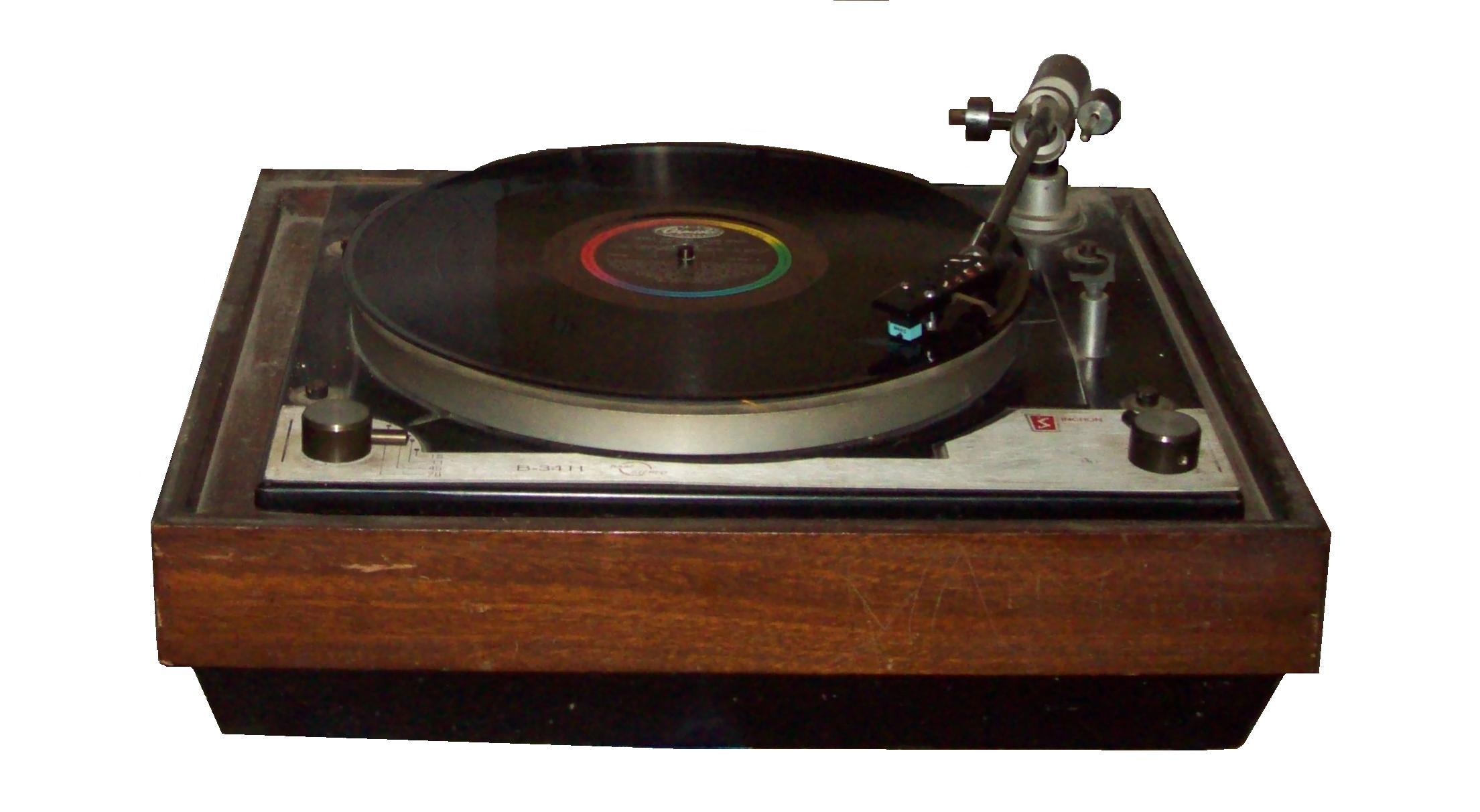 Sincron was an obscure brand of turntables from the 1970s, probably from Argentina.